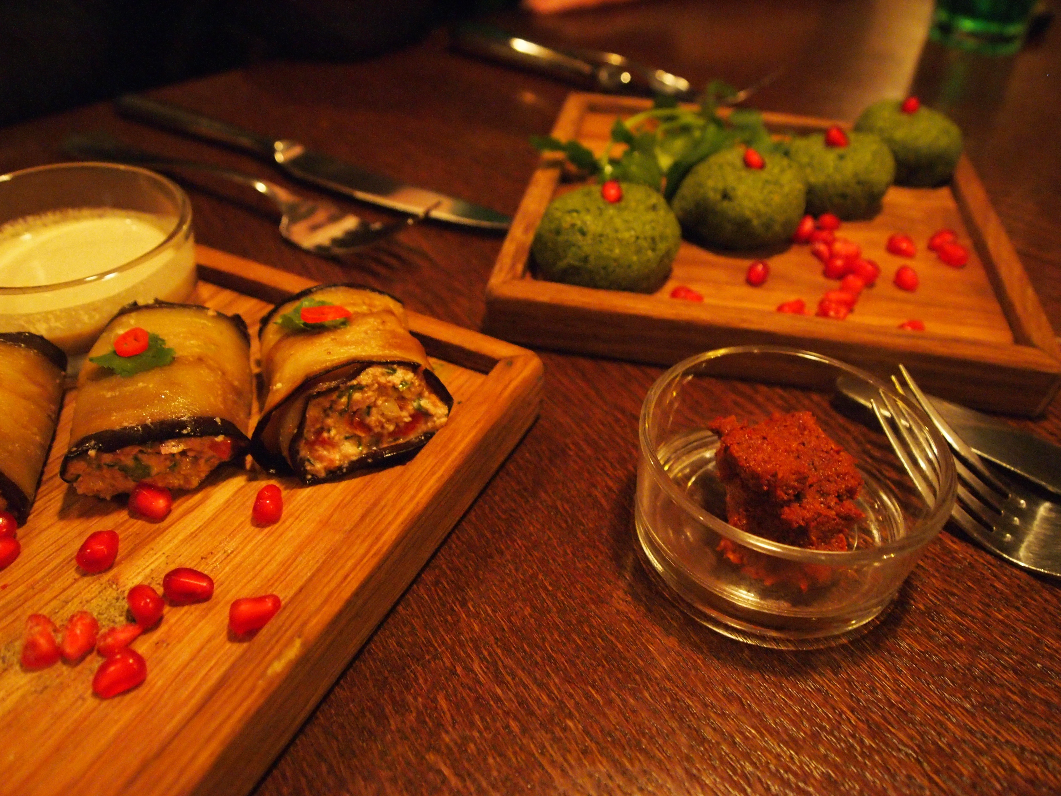 Georgian cuisine: Pkhali, Badrijani and Ajika on table